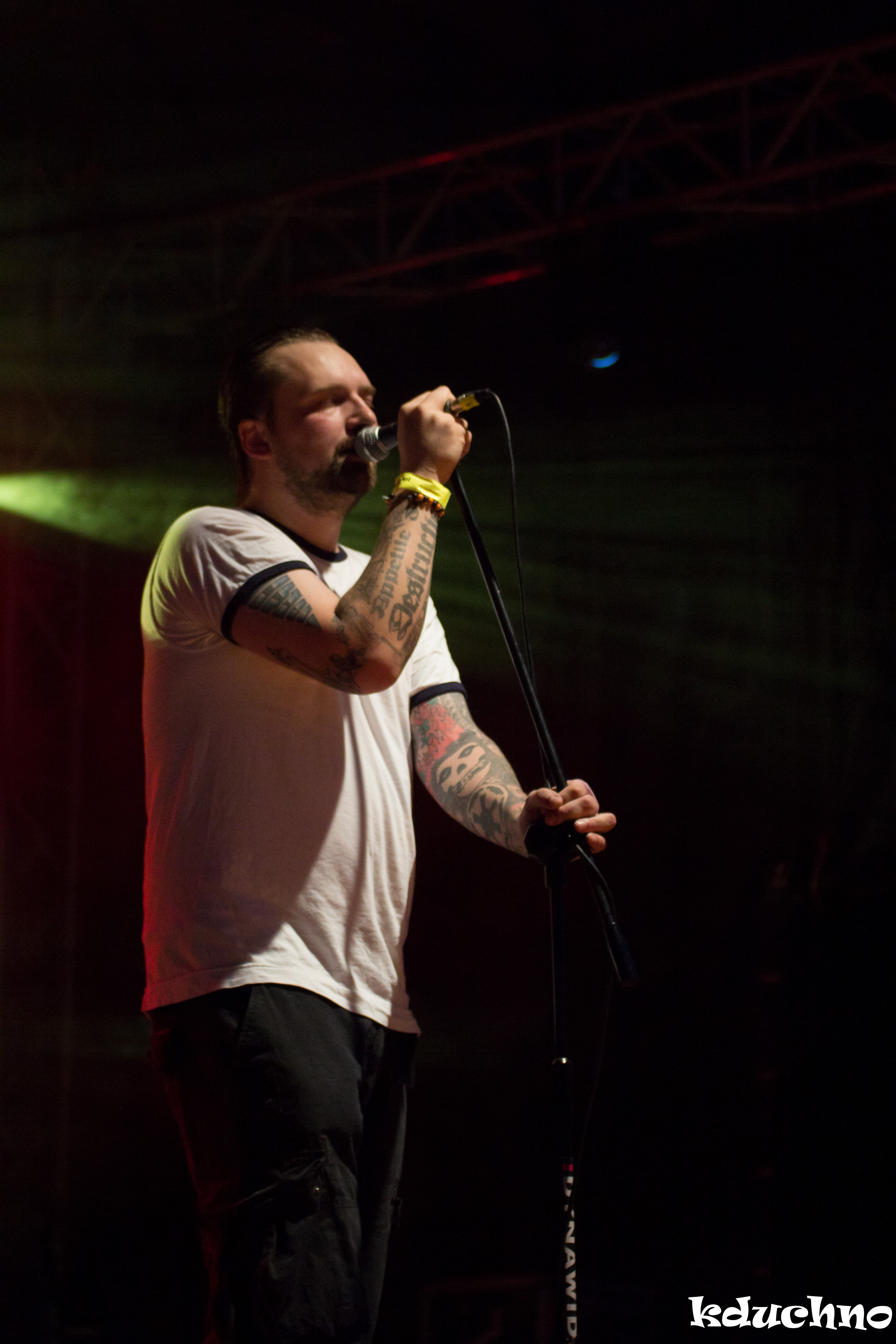 Patryk Zwolinski of Blindead